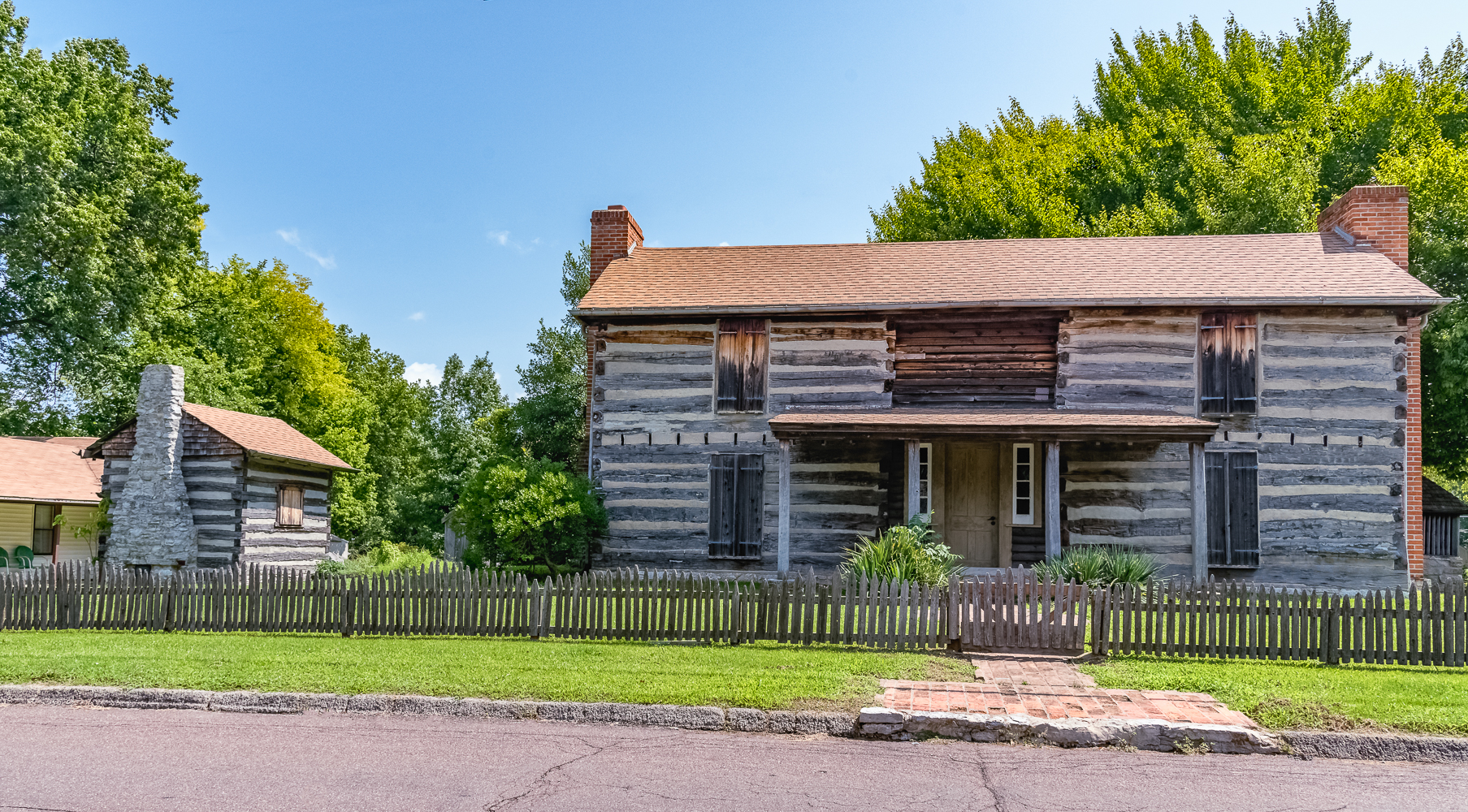 This is the McElhinney log house at 9711 Lackland Rd.. Overland -Missouri